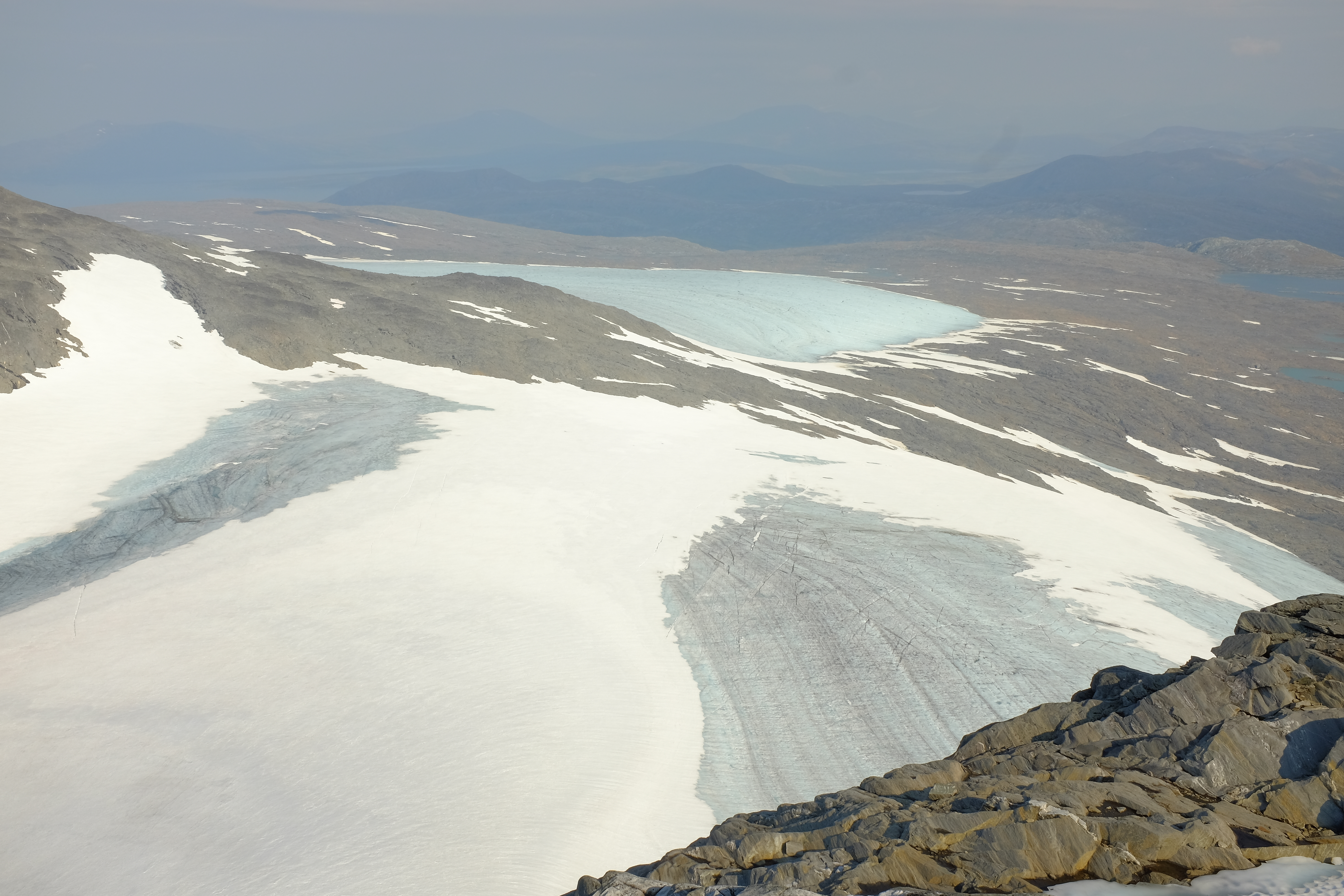 Ålmåjjiegŋa is Sweden's second largest glacier with an area of around 12 km².